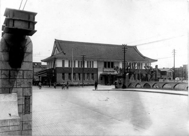 Tientsin Japanese Concession: the Butokuden (Wudedian)